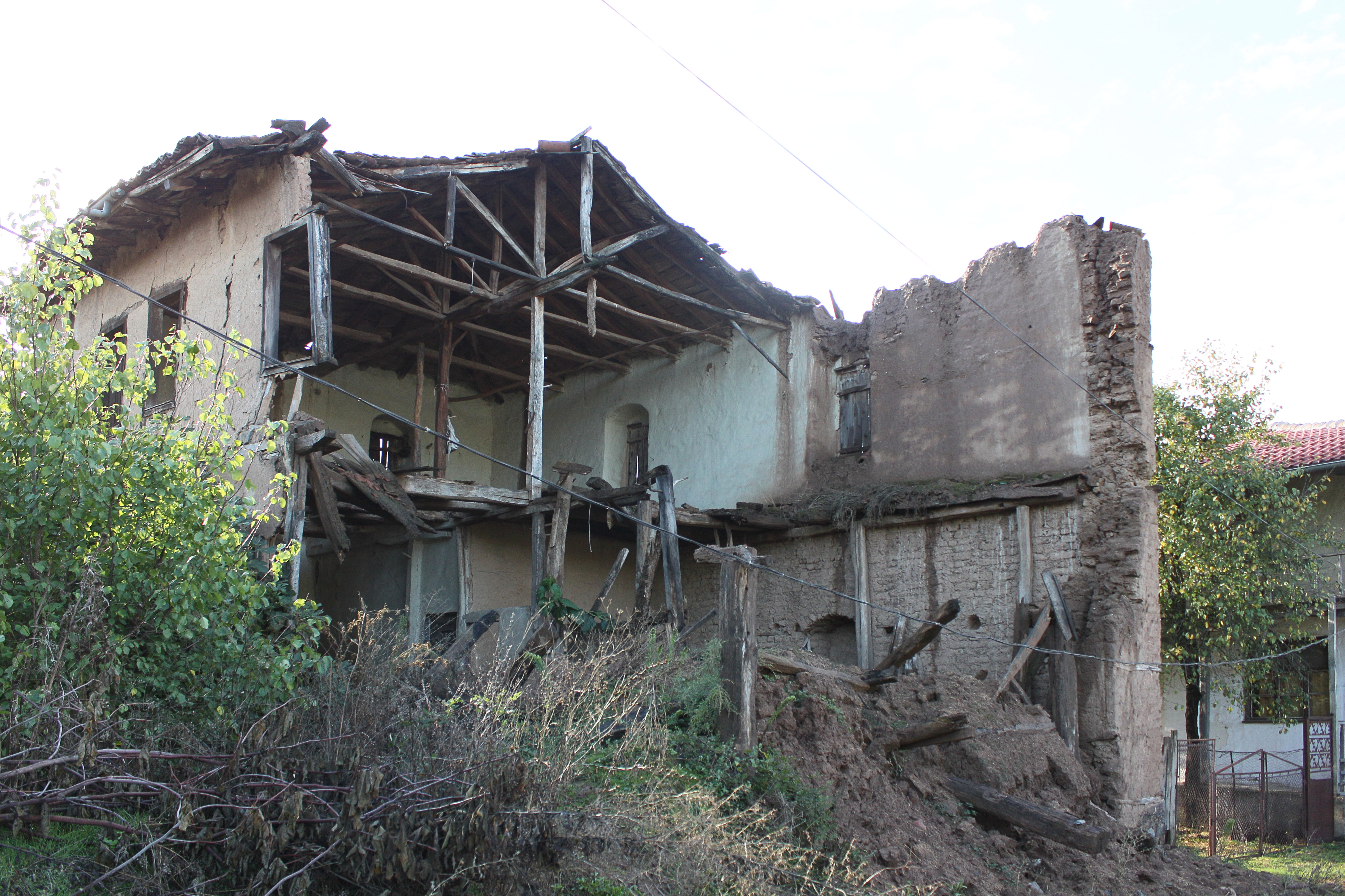 Mandritsa, a village in the Rhodope Mountains, Bulgaria